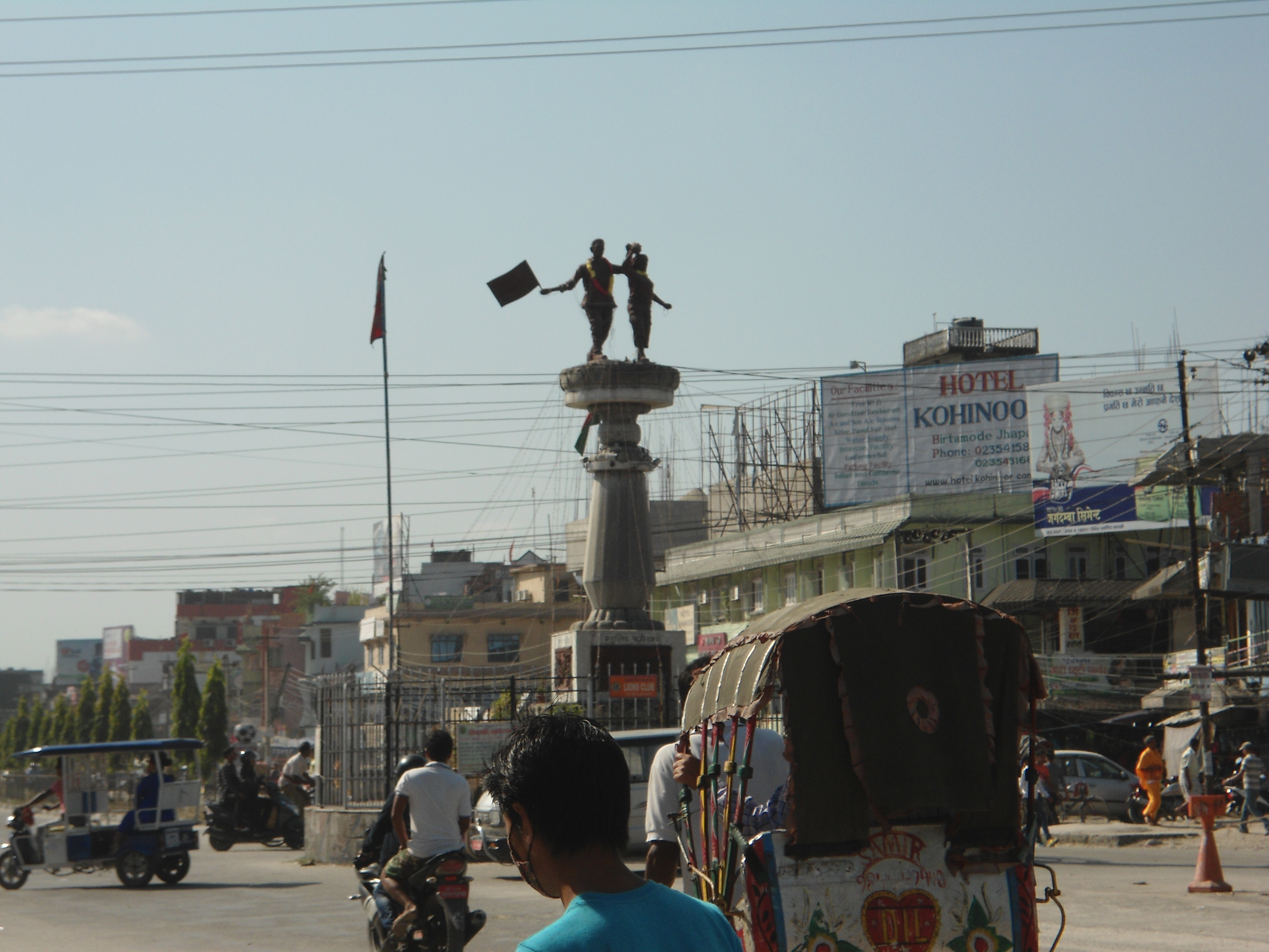 statue in birtamode city